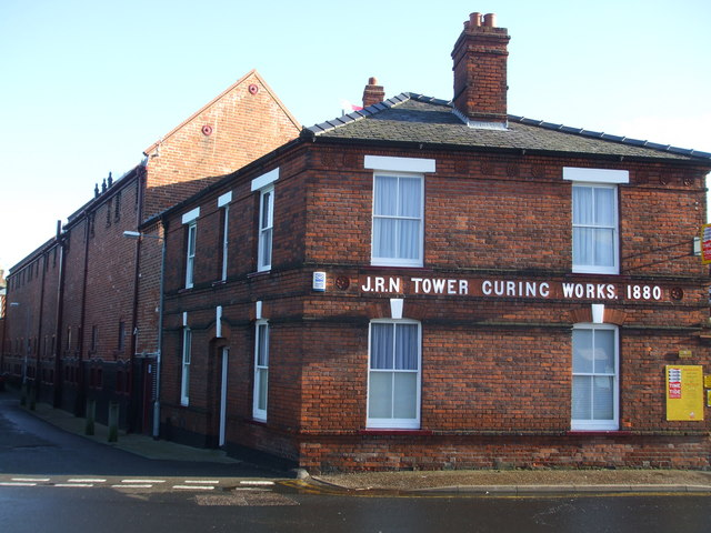 The old curing works at Great Yarmouth, near to Great Yarmouth, Norfolk, Great Britain. The towns curing works were curing herring until 1989, the site became derelict until 2002 when the Lottery fund and other sources funded the Time and Tide museum. Telling the story of Herring in Yarmouth, it has won many awards and is well worth a visit. (the old smoking houses smell great) More here Link